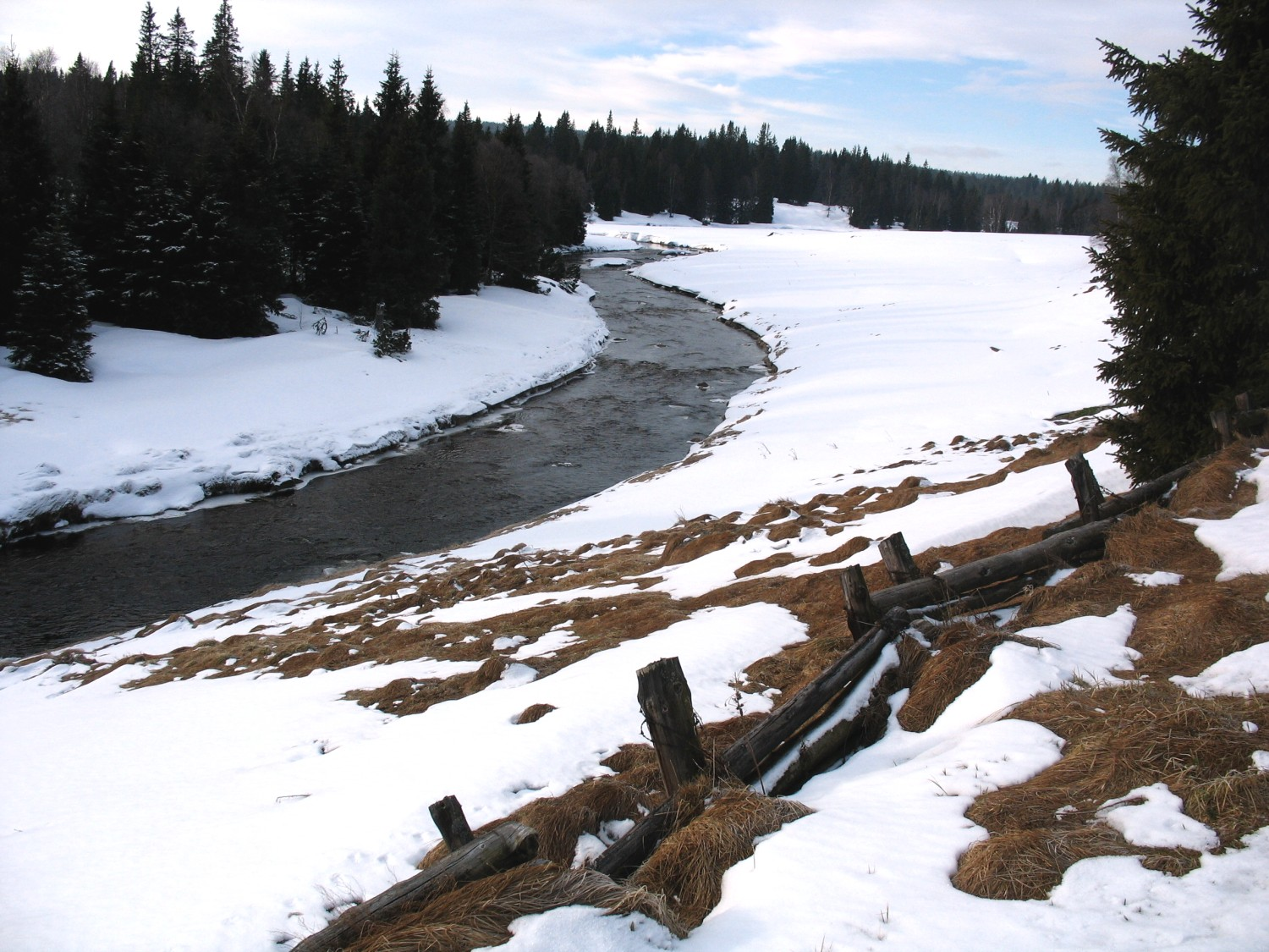 The brook Roklanský potok in the Šumava Mts., Czech republic